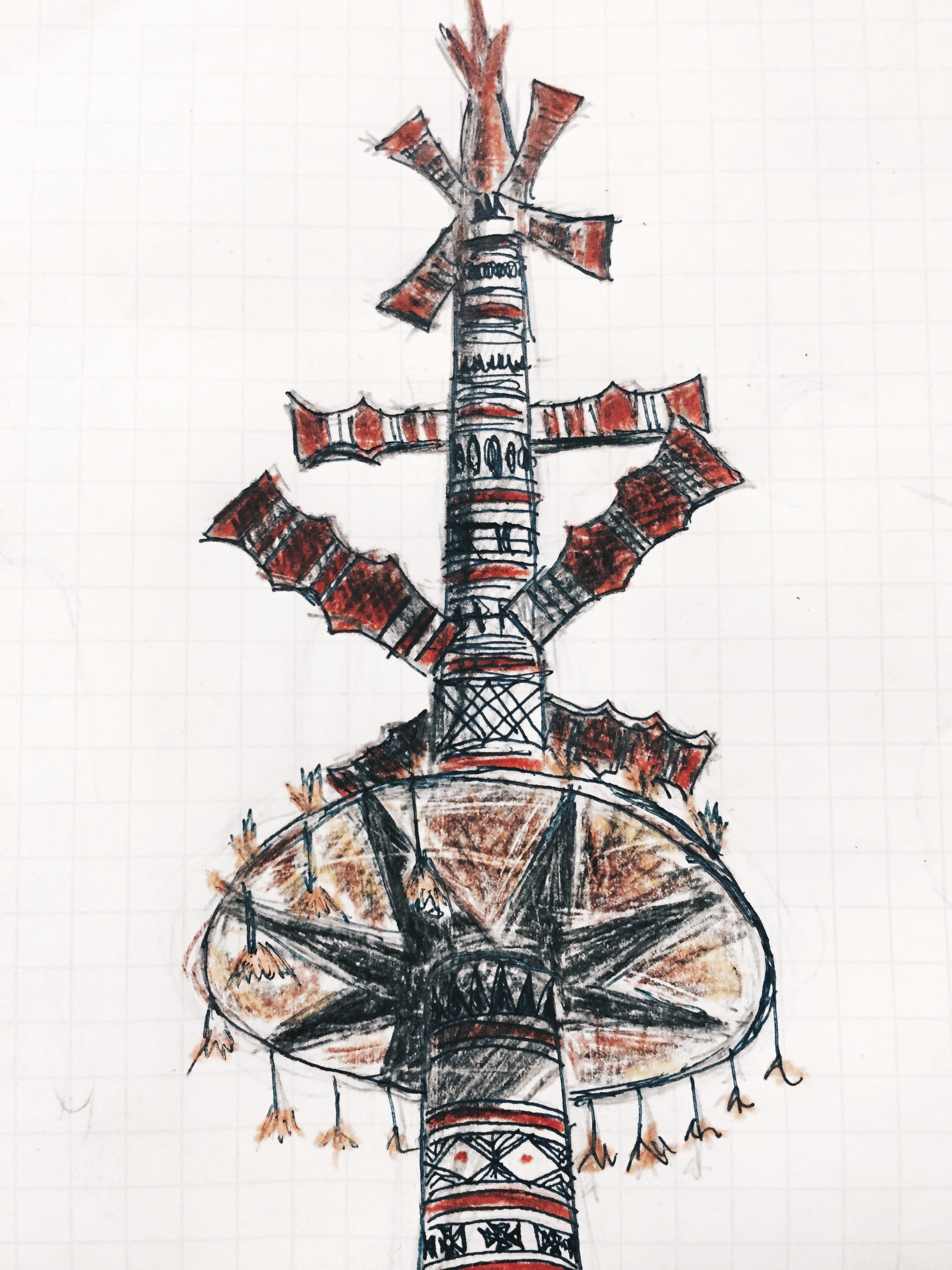 戈族節慶柱